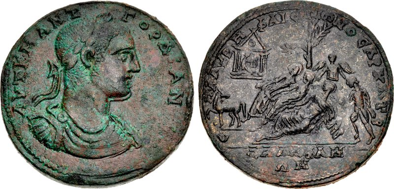 LYDIA, Daldis. Gordian III. AD 238-244. Æ Medallion (48mm, 60.65 g, 6h). L. Aur. Hephaestionos, principal archon for the second time. AVT K • M ANT ΓOPΔIAN[OC], laureate, draped, and cuirassed bust right / Є–Π • Λ • AVP H–ΦAICTIΩNOC APX A T B, ΔAΛΔIAN/ΩN, Perseus advancing left, approaching the three Gorgon sisters (Stheno, Euryale, and Medusa) sleeping below a tree; winged Hypnos stands behind them; to upper left, Apollo Citharoedus within tetrastyle temple; to lower left, horse standing left, head right.